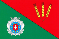 Flag of Apostolivskyj district (Ukraine)